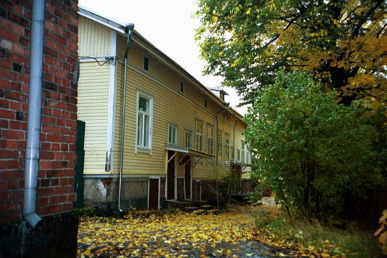 A typical wooden building of Port Arthur in Turku